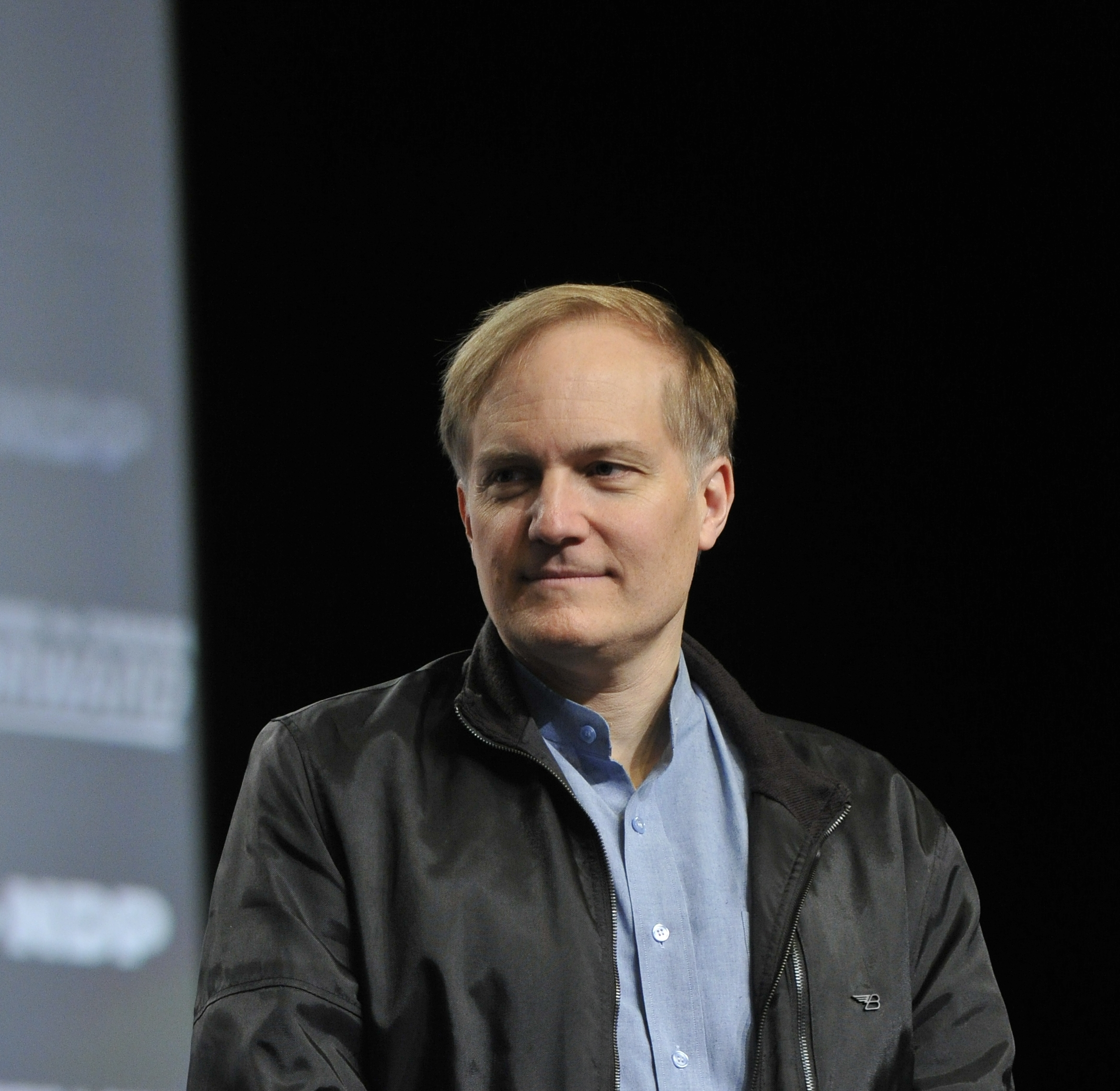 Peter Julian